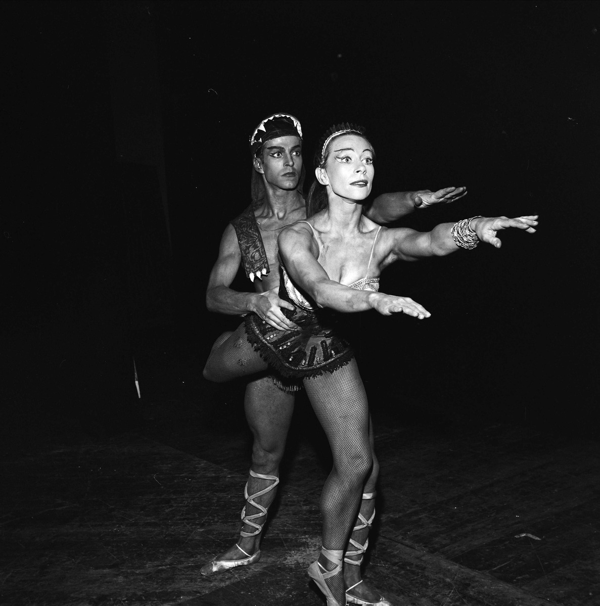 Norwegian ballet dancer Edith Roger (born 1922), here with Rolf Daleng in Birgit Cullbergs Medea performed 1959 at the norwegian Opera Ballet.